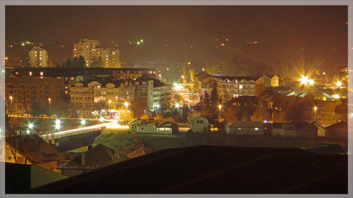 Berane at night